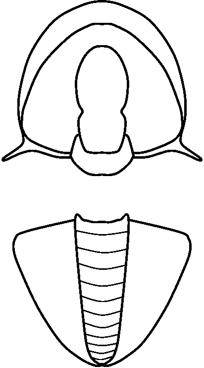 A drawing of Acidiscus birdi, a trilobite of the Agnostida order, Weymouthiidae family